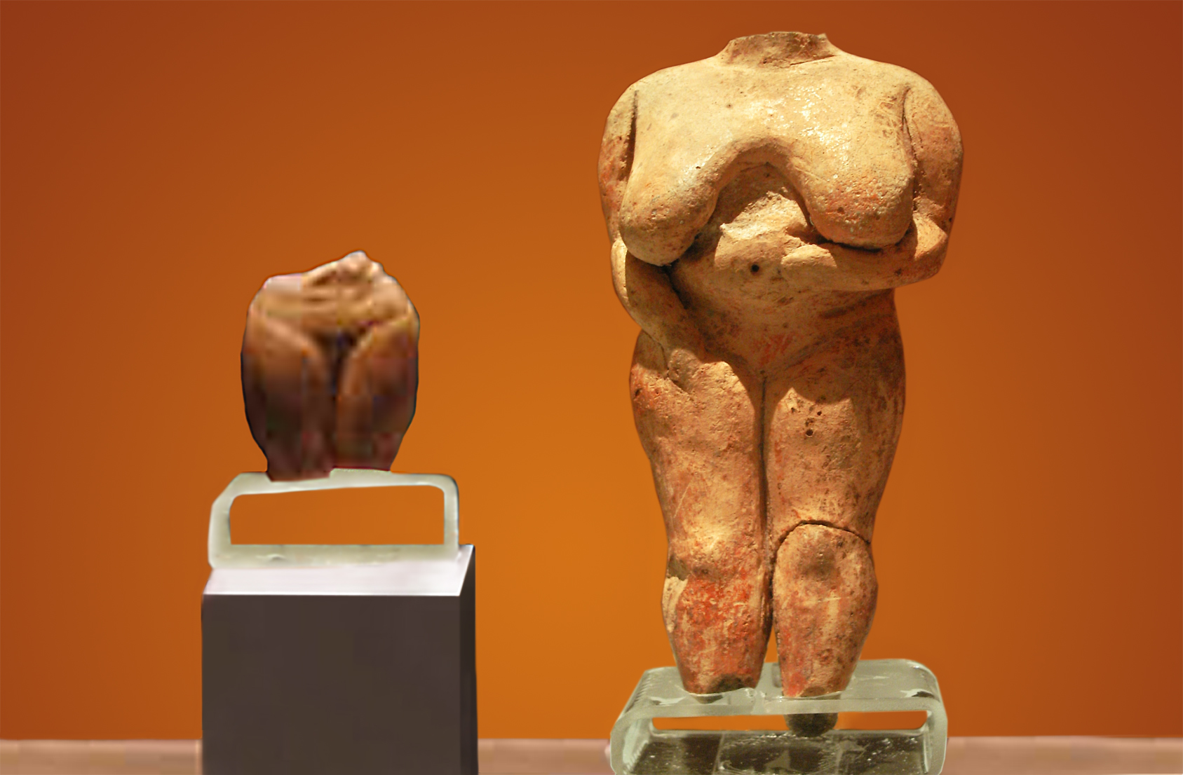 Venus of Malta, National Museum of Archaeology of Malta.